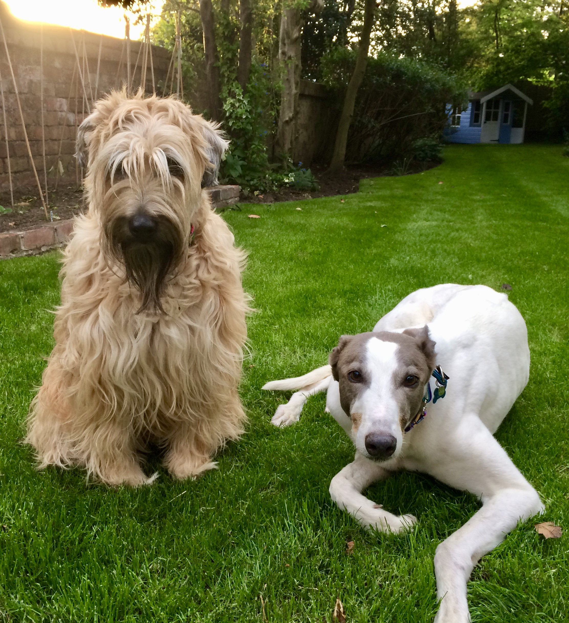 Sidaz Jack relaxing at home